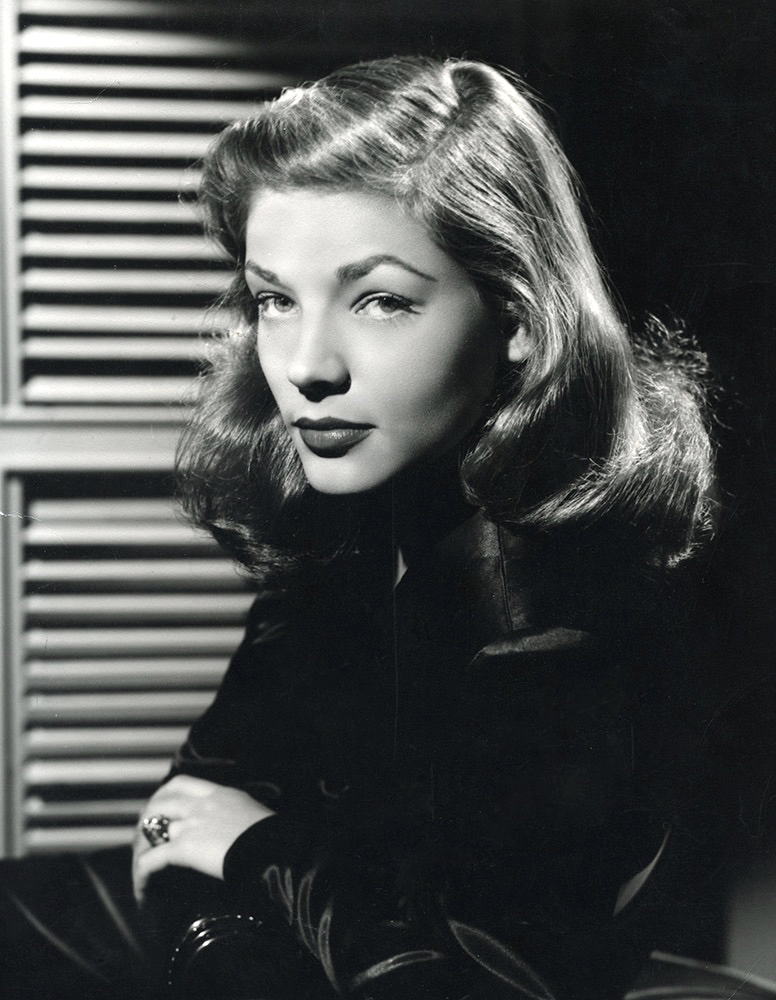 Photo of Lauren Bacall, 1945 for Swedish press